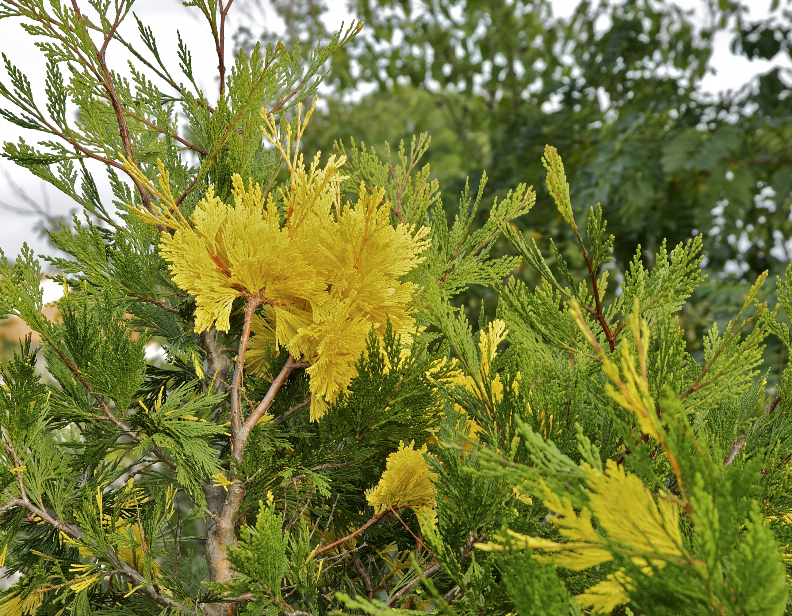 California incense-cedar, Calocedrus decurrens (Aureovariegata). Detail